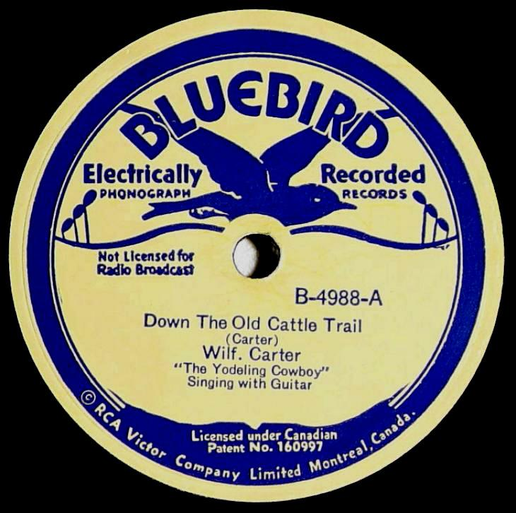 A record of Wilf Carter's Down The Old Cattle Trail (Bluebird B-4988-A)